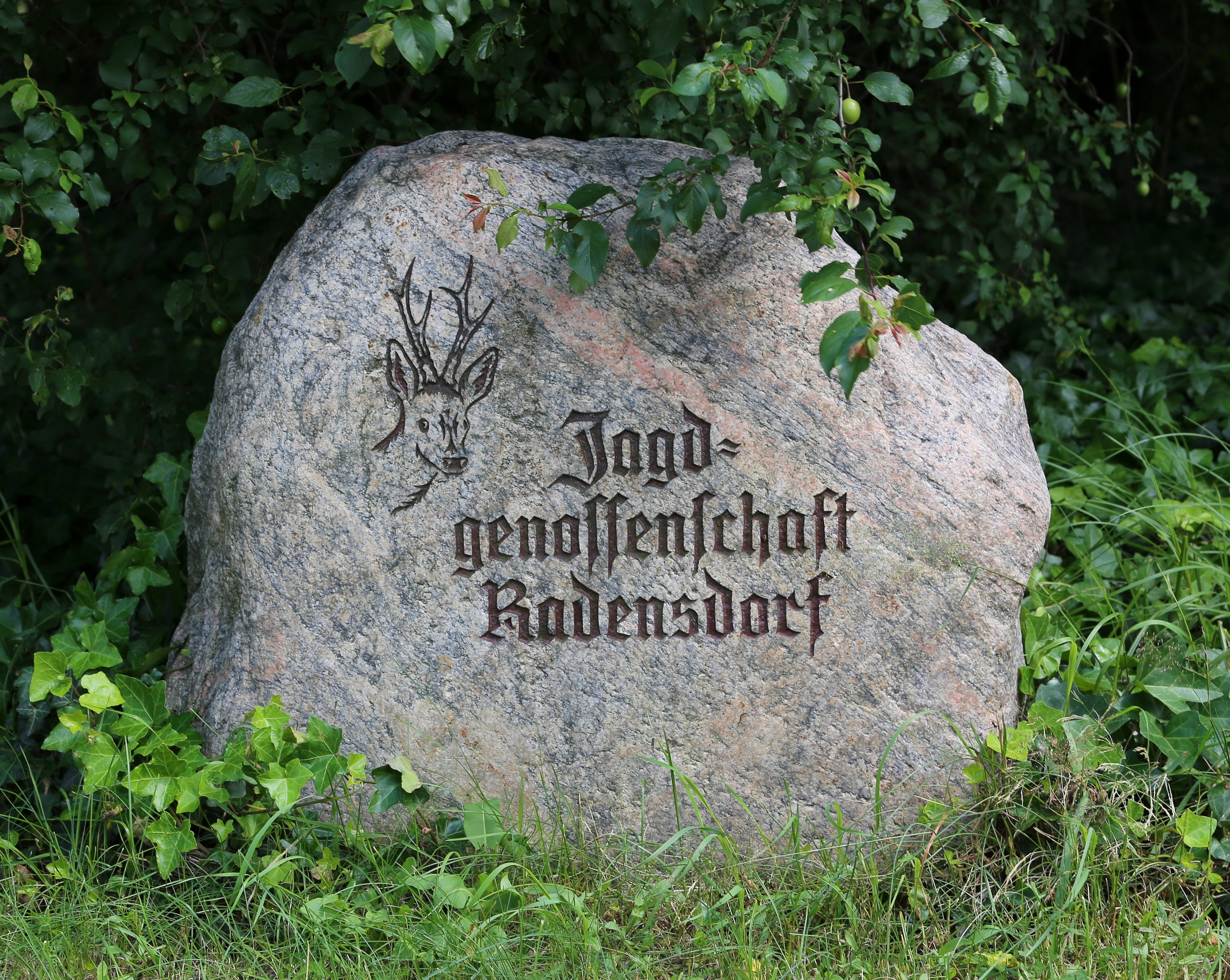 Memorial stone Jagdgenossenschaft Radensdorf Lübben-Radensdorf, Landkreis Dahme-Spreewald, Brandenburg, Germany.